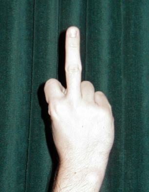 The Middle Finger (possibly offensive)